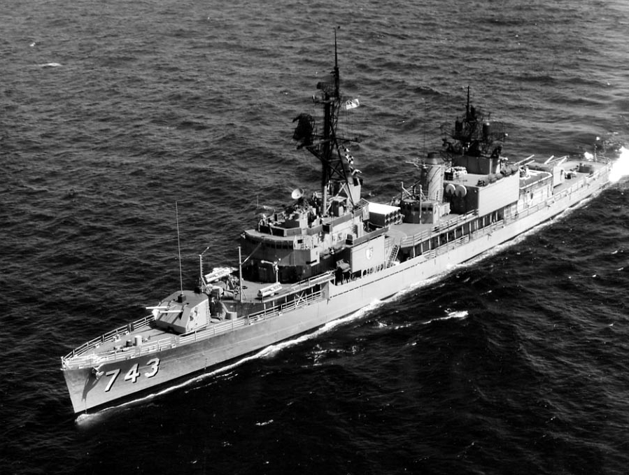 The U.S. Navy destroyer USS Southerland (DD-743) underway off the coast of San Diego, California (USA), on 28 August 1967.